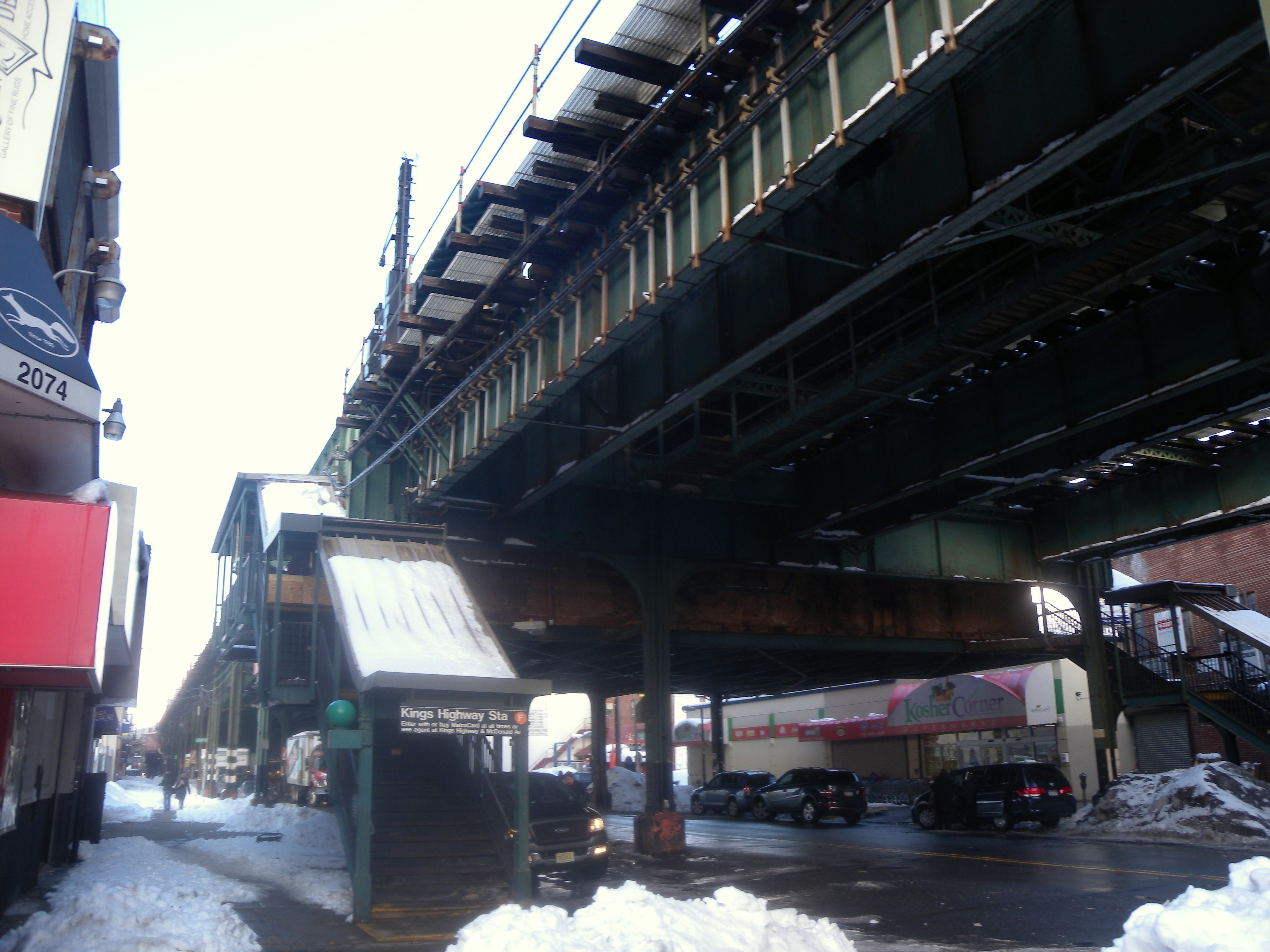 Looking north at Kings Highway stair on a partly cloudy afternoon.